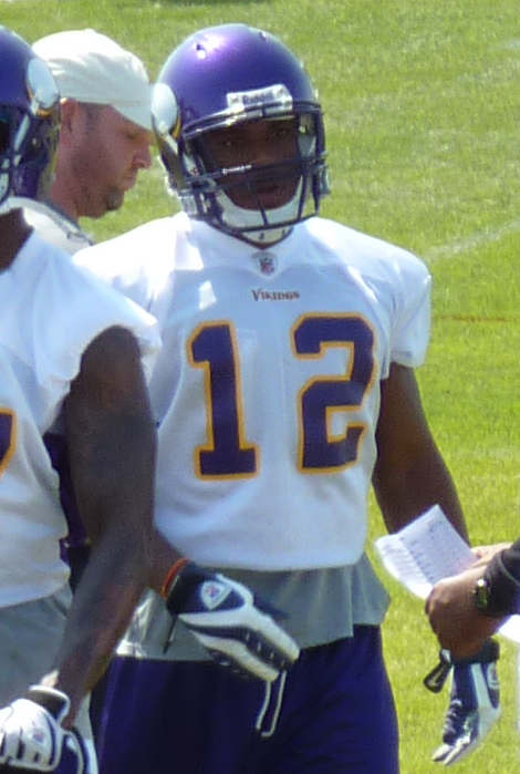 Percy Harvin, while a member of the Minnesota Vikings, at the Vikings' 2009 Training Camp, Mankato, Minnesota, USA.